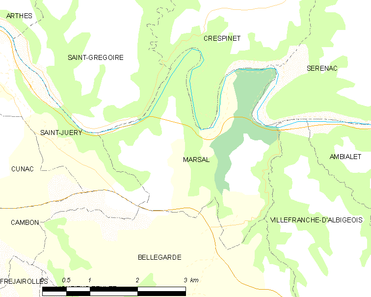 Map of French municipality Marsal